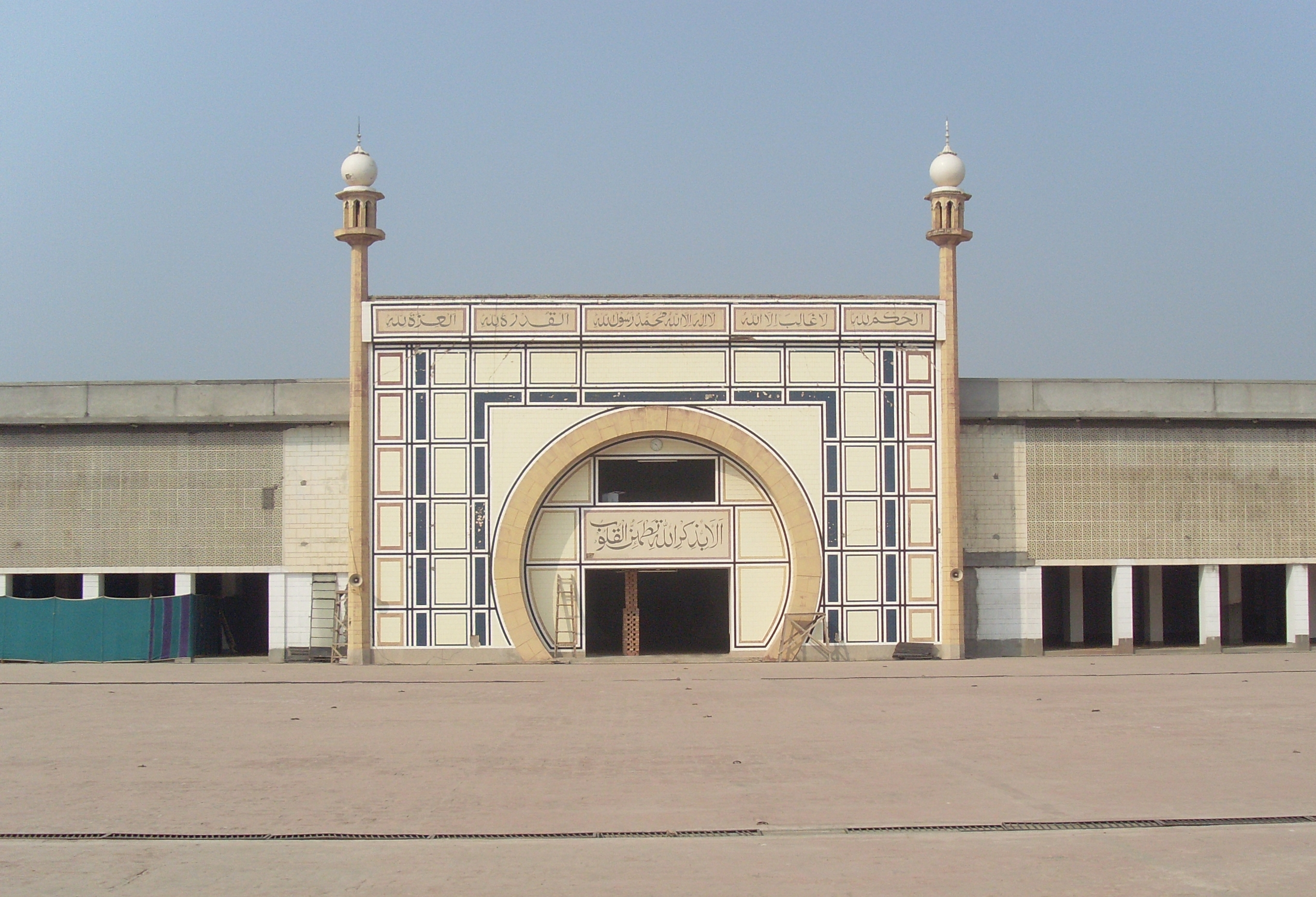 entrance area of the Masjid Aqsa